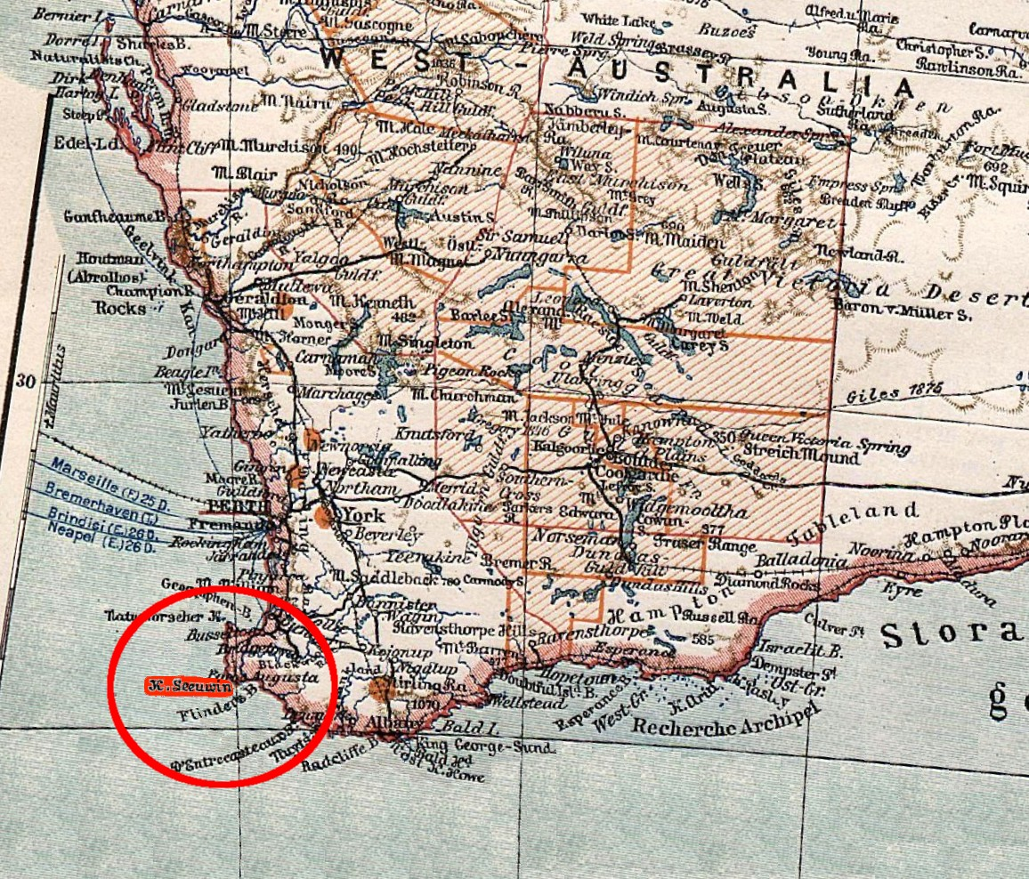 southwestern part of Australia, indicating Cape Leeuwin. From a pre-1904 map.